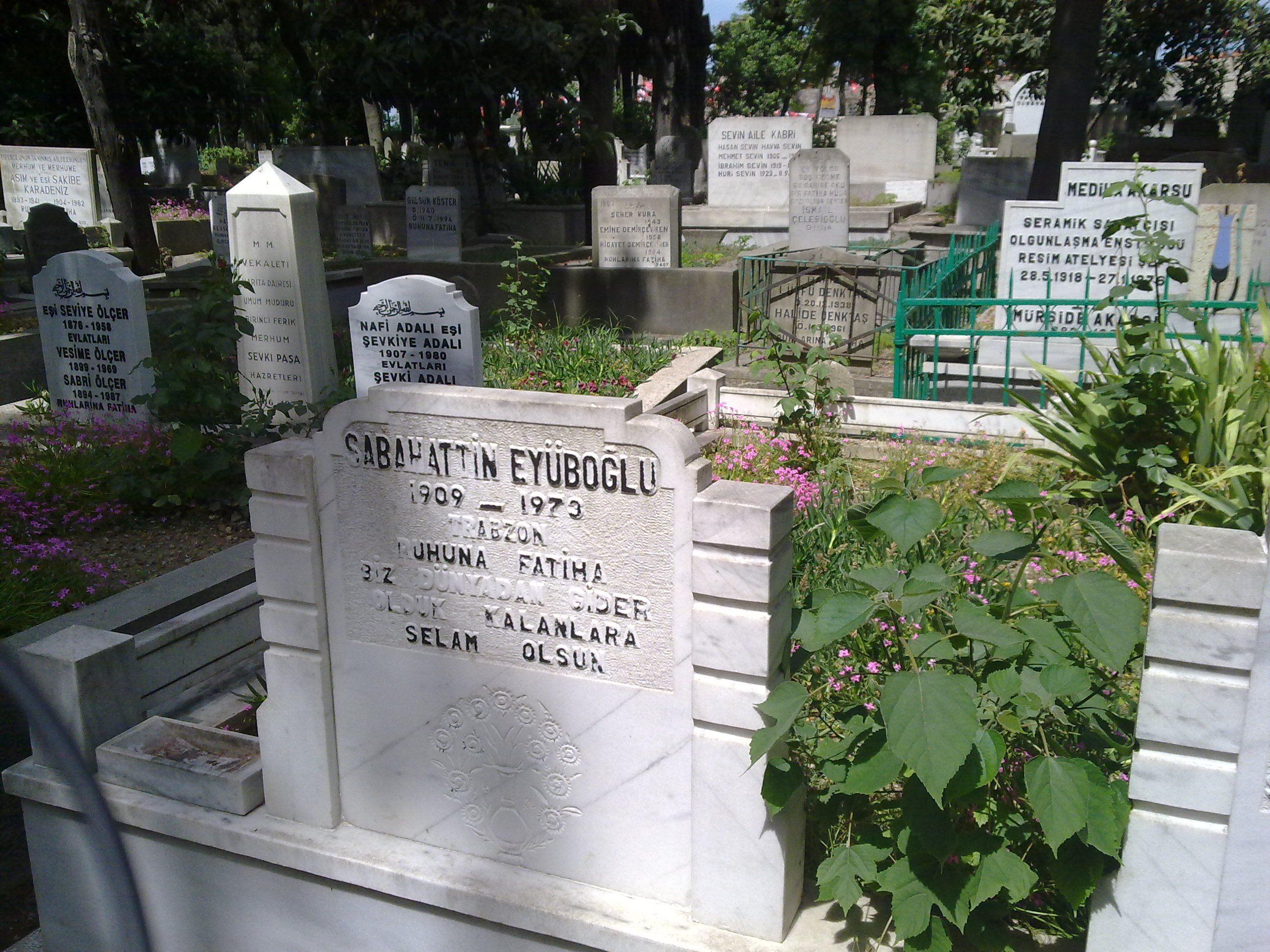 Tombstone of Sabahattin Eyüboğlu in Merkezefendi Cemetery